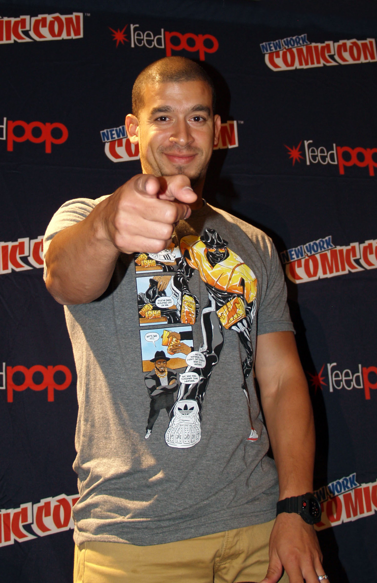 Music executive and former editor of The Source Rigo "Riggs" Morales during a panel discussion on hip hop and comics on Sunday, October 12, 2014, at the Jacob K. Javits Convention Center in Manhattan, Day 4 of the 2014 New York Comic Con. This photo was created by Luigi Novi. It is not in the public domain, and use of this file outside of the licensing terms is a copyright violation.